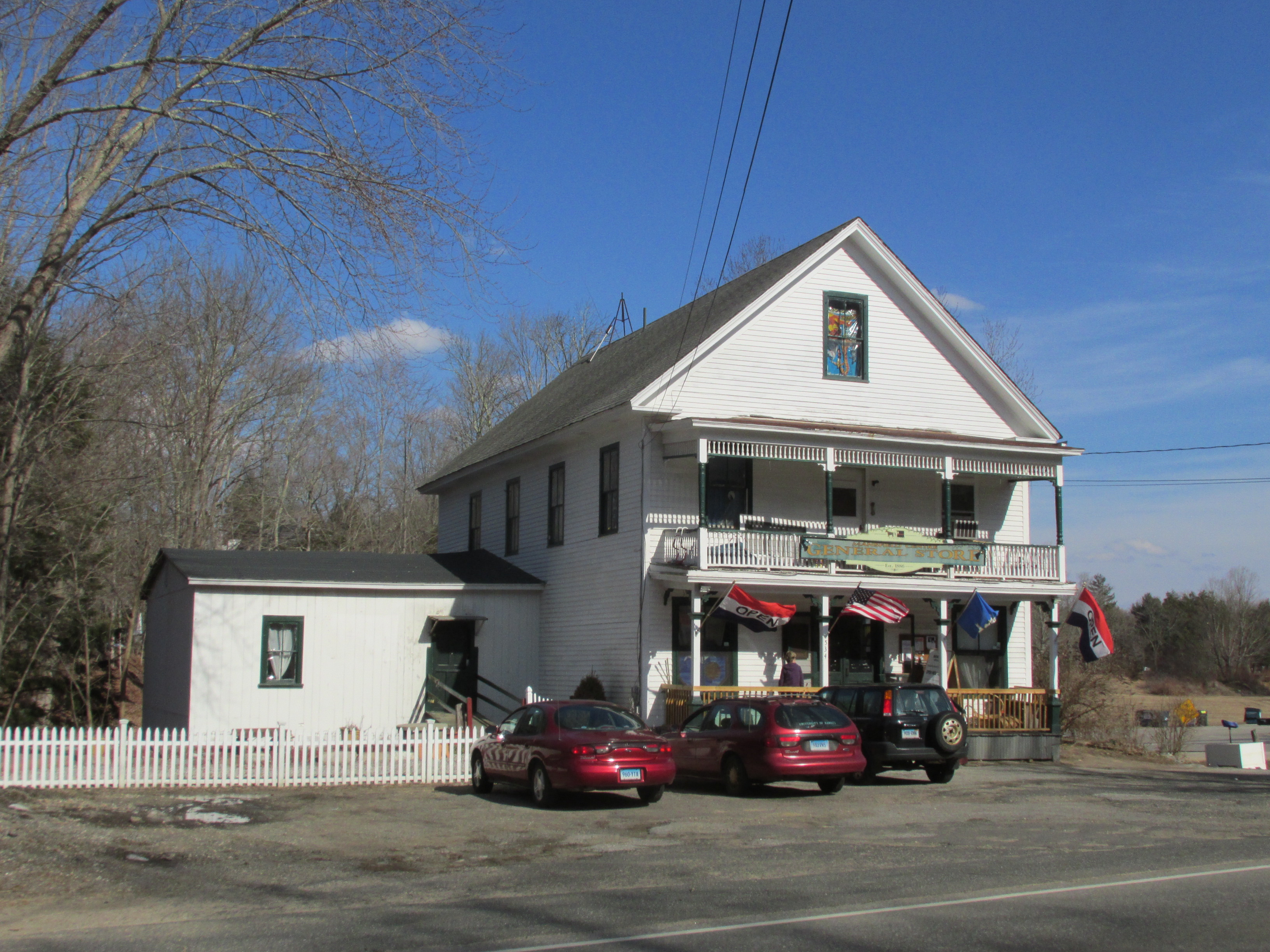 Mansfield Centre General Store, Mansfield Connecticut